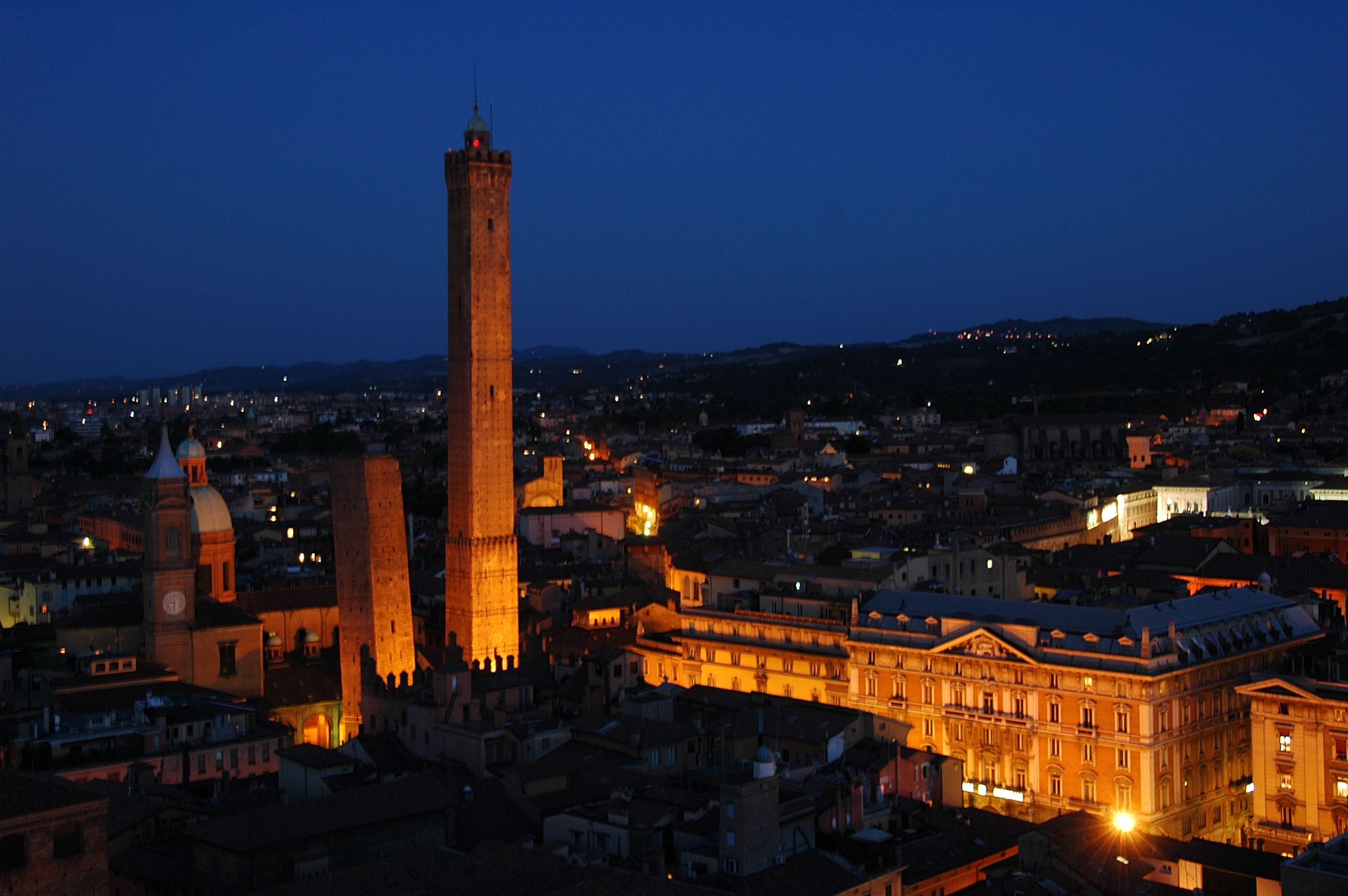 This is a photo of a monument which is part of cultural heritage of Italy.